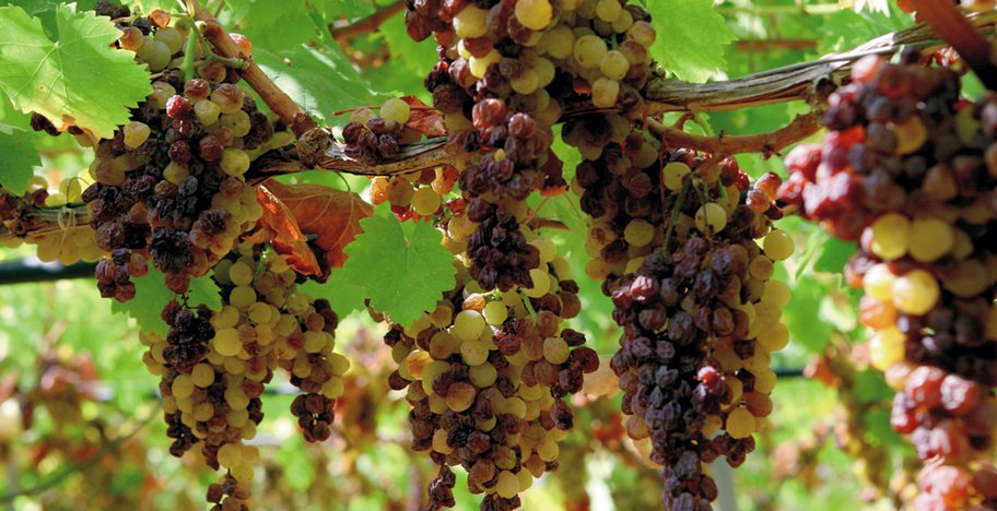 The grape sun-wilting on the plant